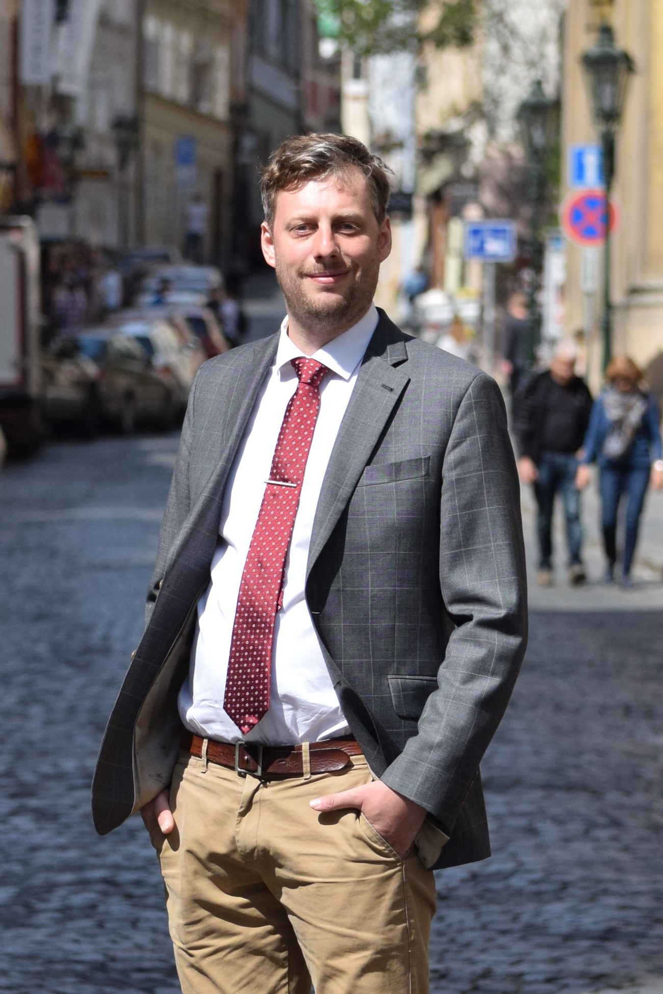 Ondřej Ditrych director of the Institute of the international relations